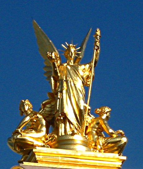 Paris Opera Right Roof Sculpture Left Photo taken by wikipedian Pufacz